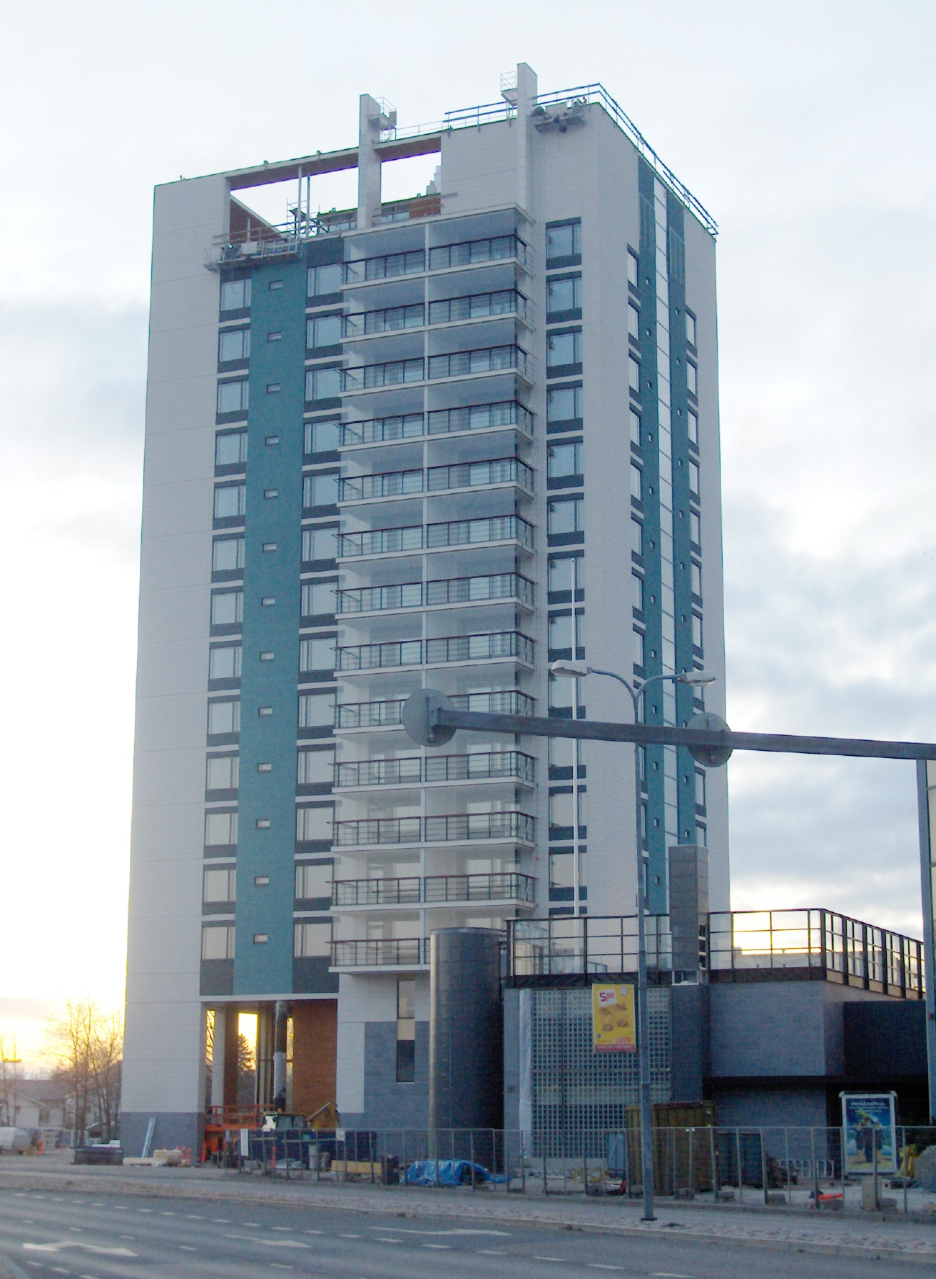 Kielotorni is the tallest building at 50 m (a residential complex) in Tikkurila, Finland.